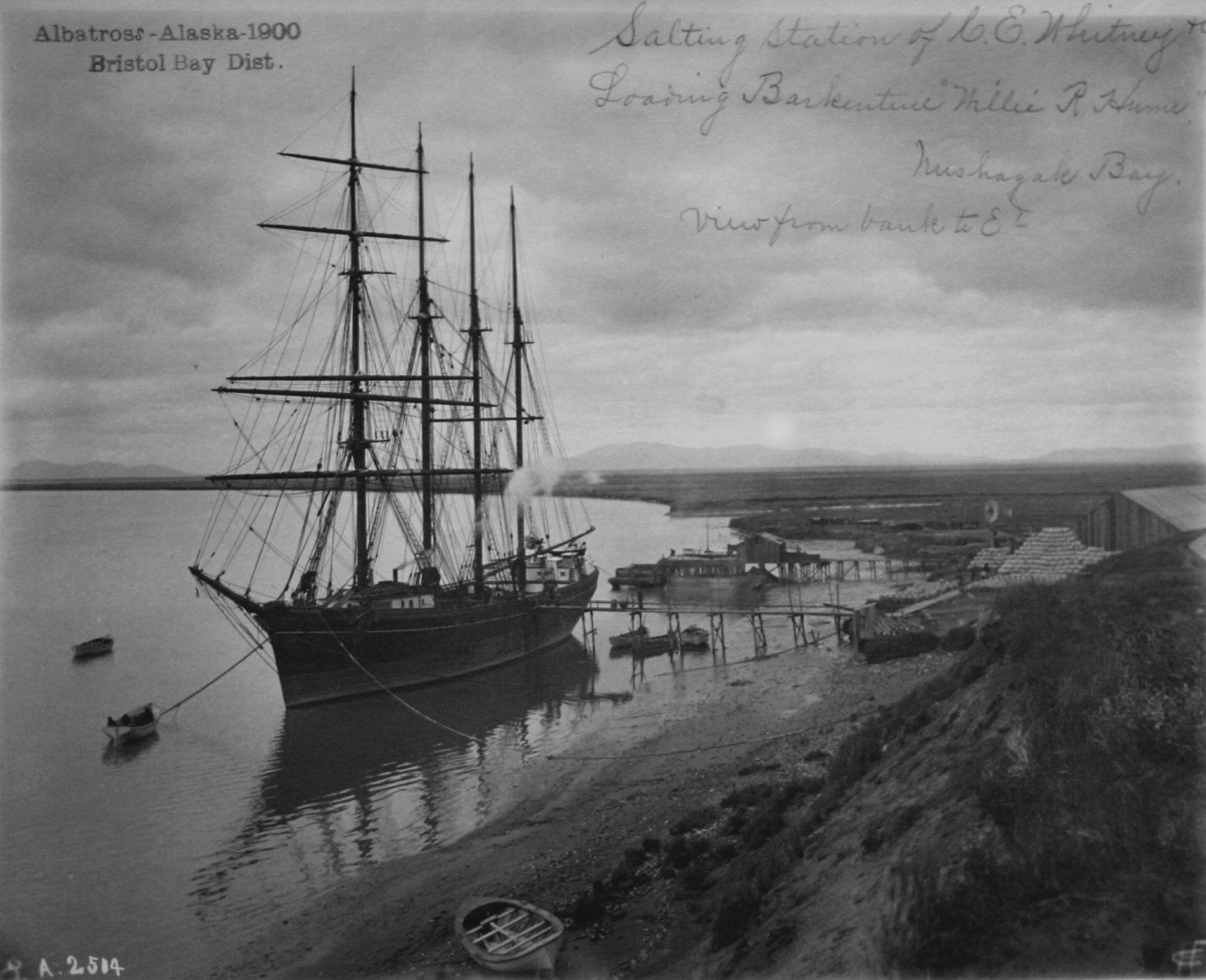 Alaska, Bristol Bay district, salting station of C.E. Whitney and Co., loading barkentine Millie R. Hume [sic], Nushagak Bay, view from bank to east. (The vessel was more likely the Willie R Hume, chartered by the Alaska packers Association) Credit: Gulf of Maine Cod Project, NOAA National Marine Sanctuaries; Courtesy of National Archives